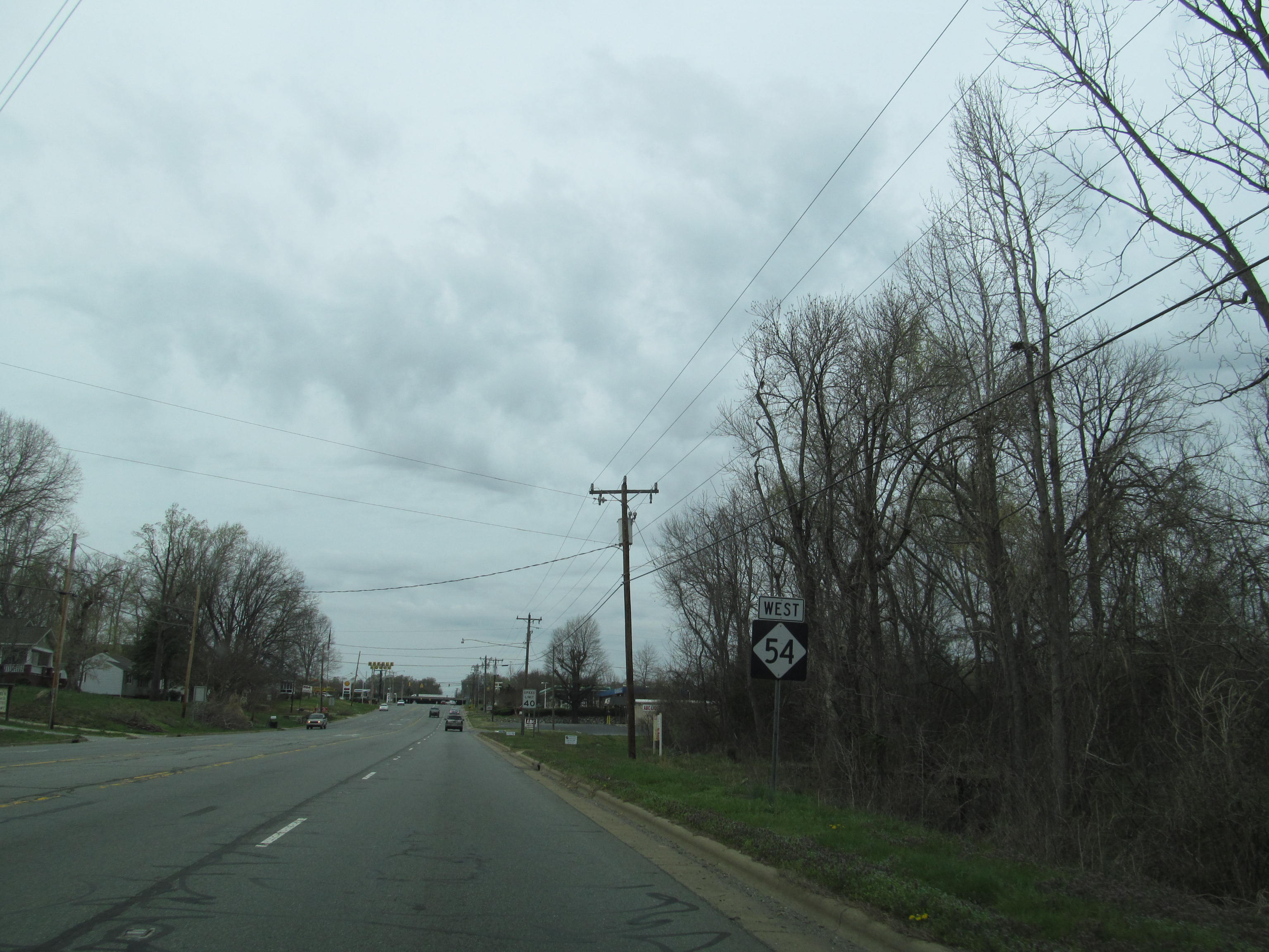 Westbound North Carolina Highway 54 approaching the interchange with Interstate 40/Interstate 85 in Graham.